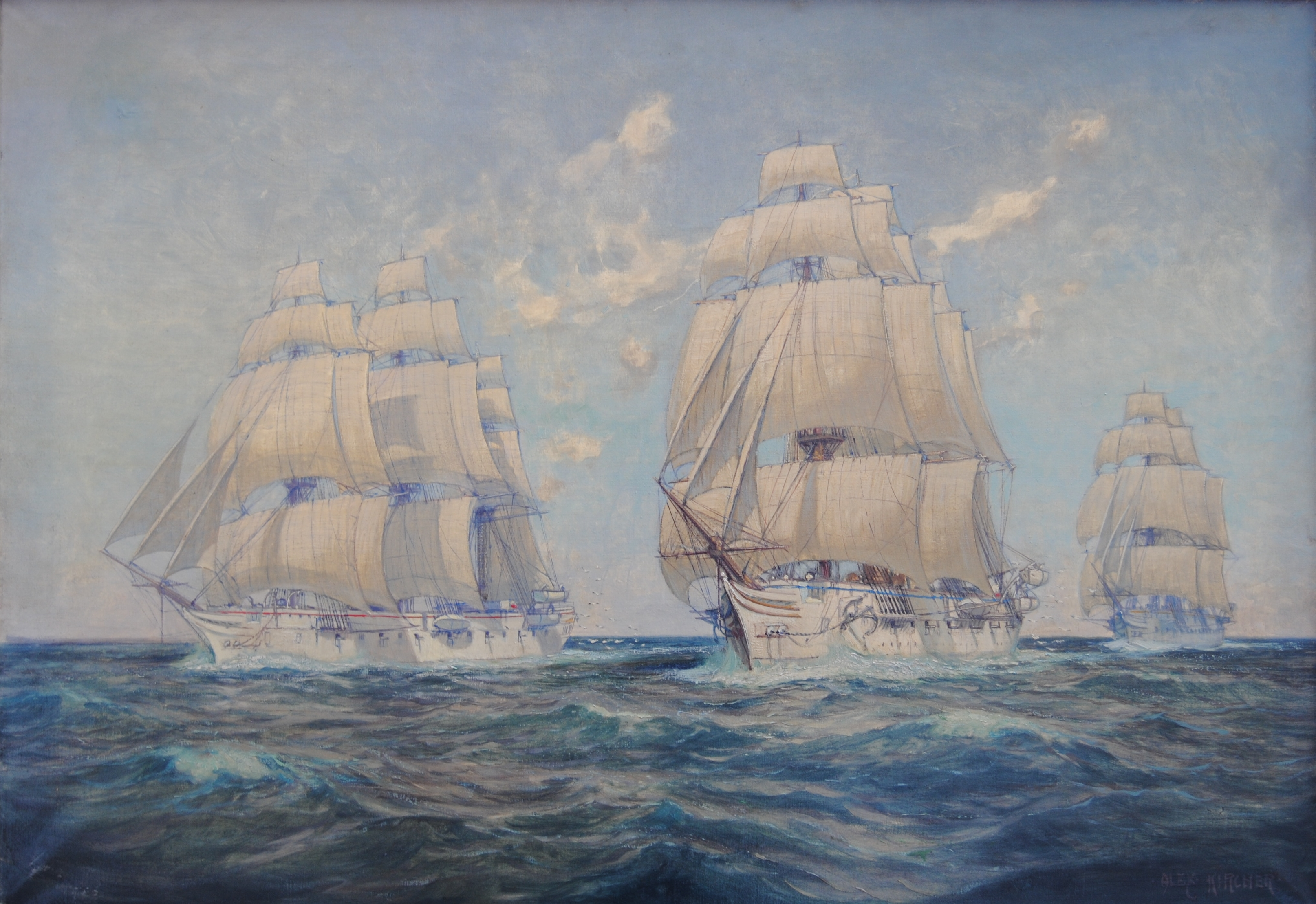 The three training ships of the Imperial Navy, Stosch, Stein and Gneisenau under full sail